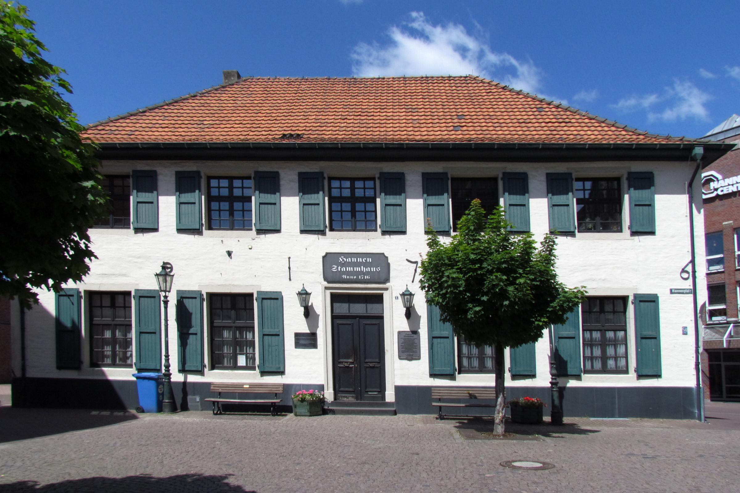 This is a photograph of an architectural monument.It is on the list of cultural monuments of Korschenbroich